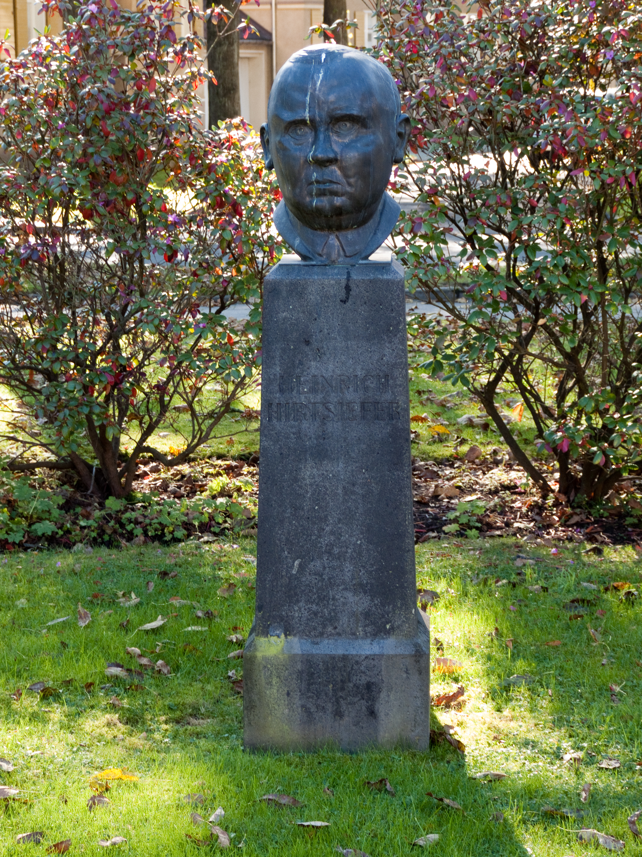 Bust of Heinrich Hirtsiefer in Essen.